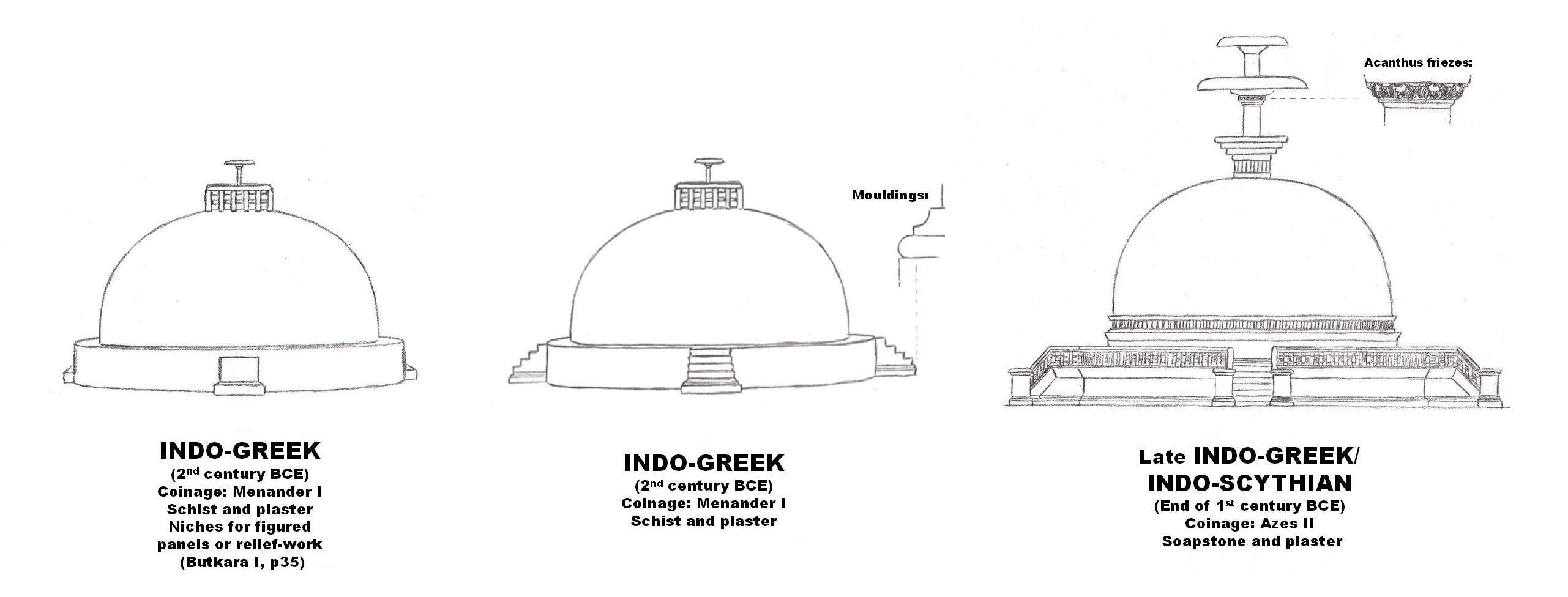 Evolution of the Butkara Stupa. Reference: Domenico Faccenna, "Butkara I, Swat Pakistan, 1956-1962), Part I, IsMEO, ROME 1980. Own drawings, own work.